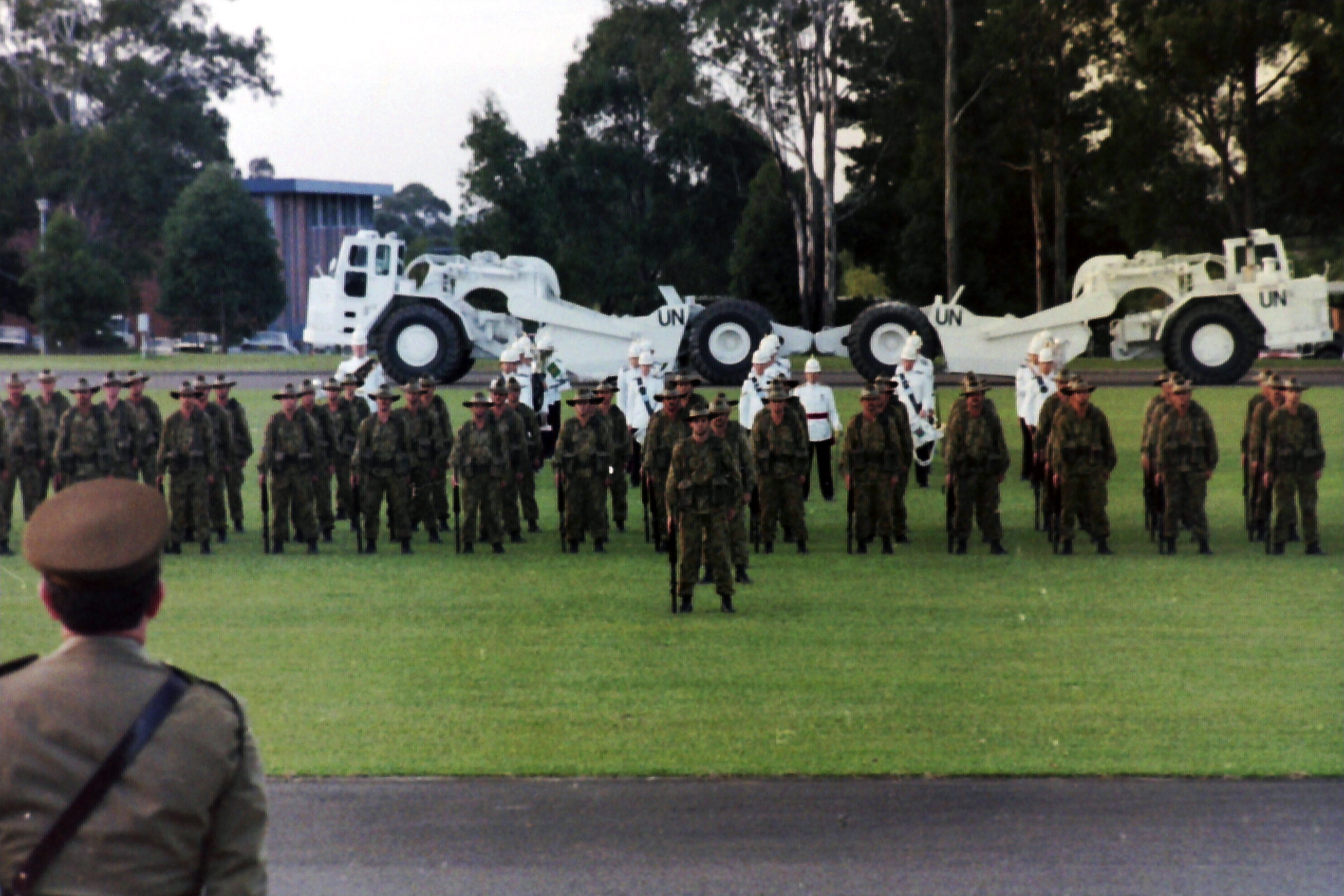 Photograph of the farewell Parade at Holsworthy Barracks for the main body of 1 ASC. Parade was reviewed by the Prime Minister of Australia Bob Hawke.